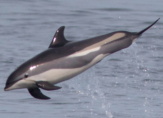 Lagenorhynchus acutus